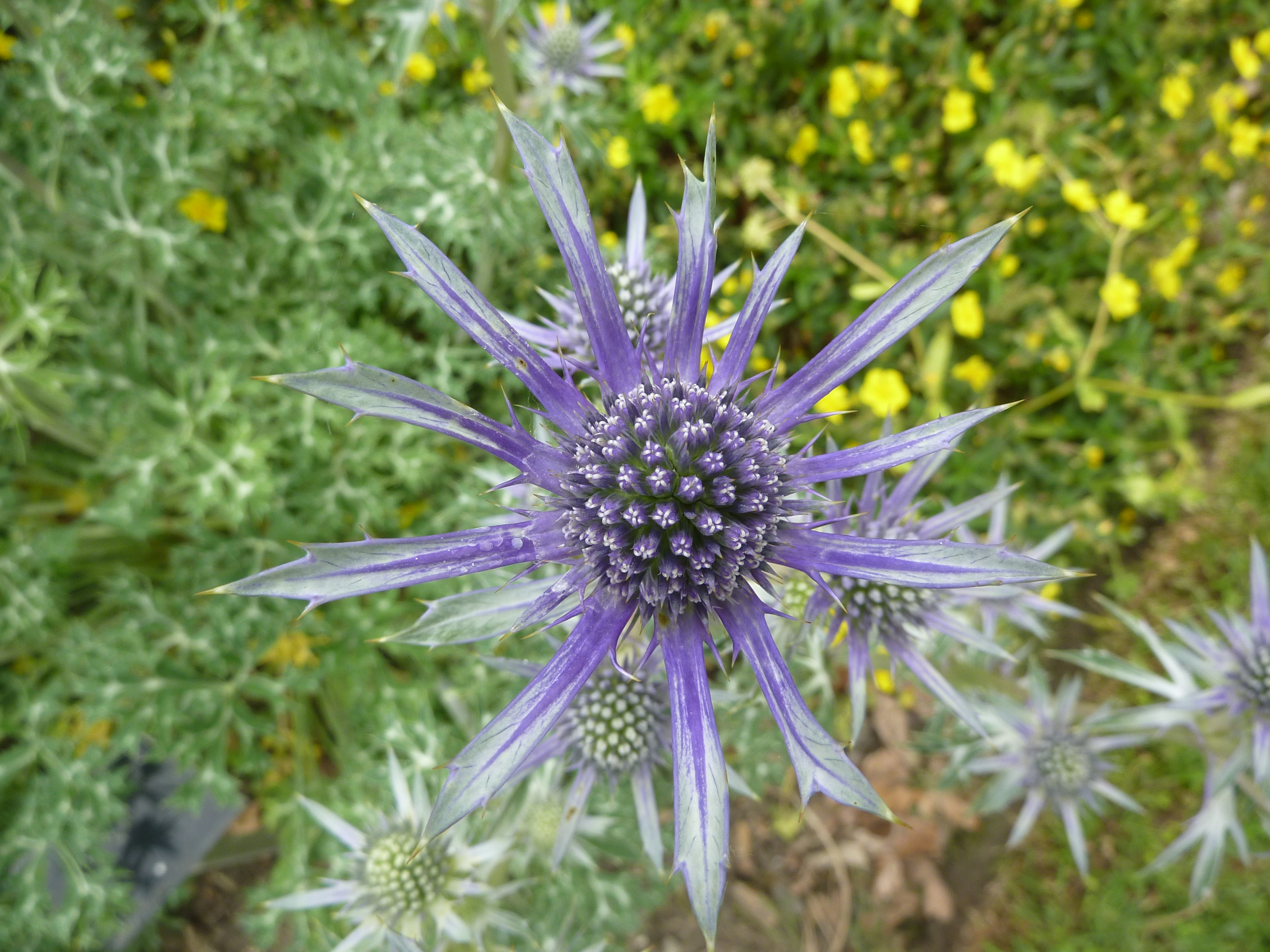 Taken in the Cambridge University Botanic Garden